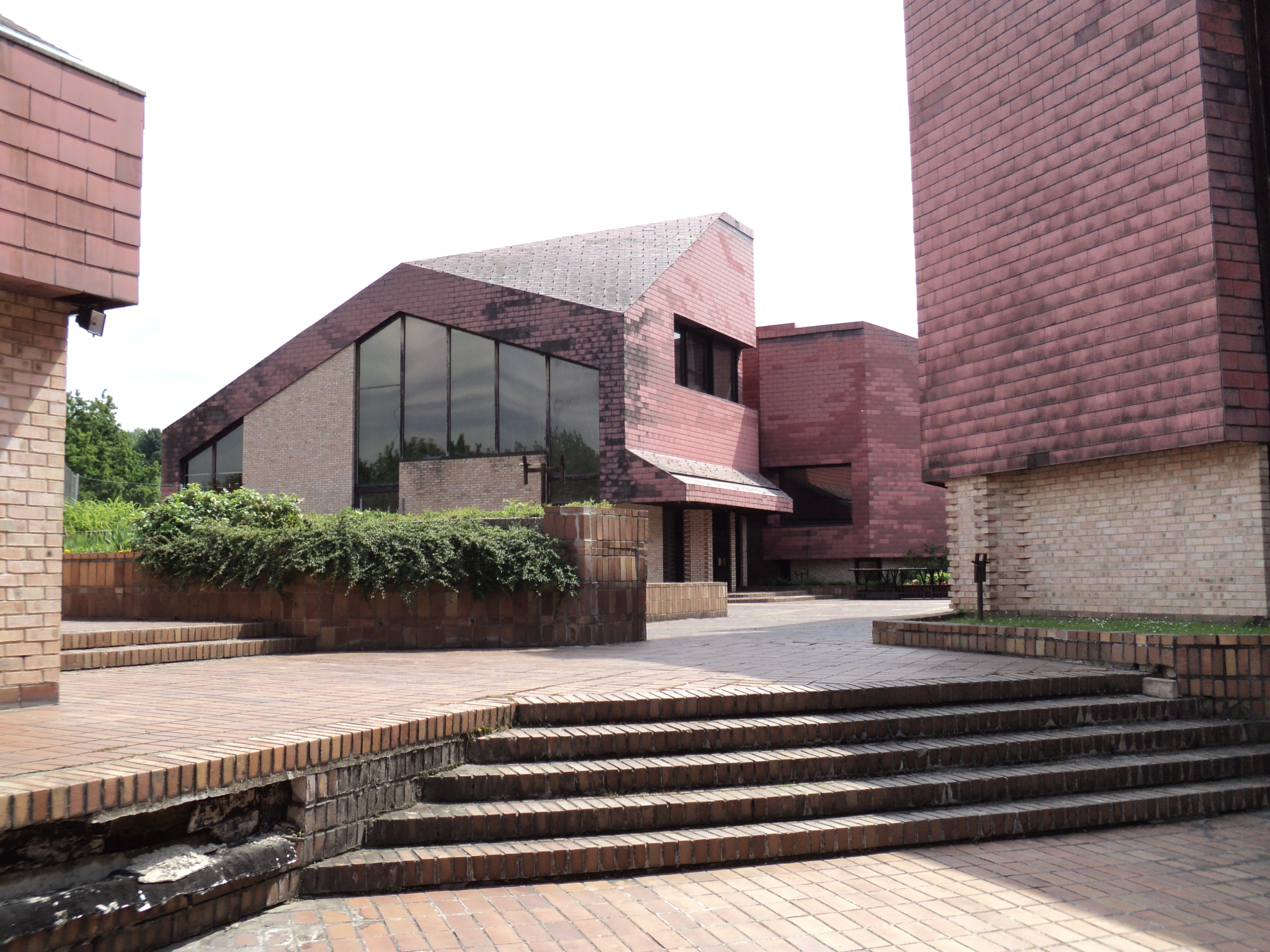 People's Liberation War Fighters and Youth Mansion in Kumrovec, built in 1974.